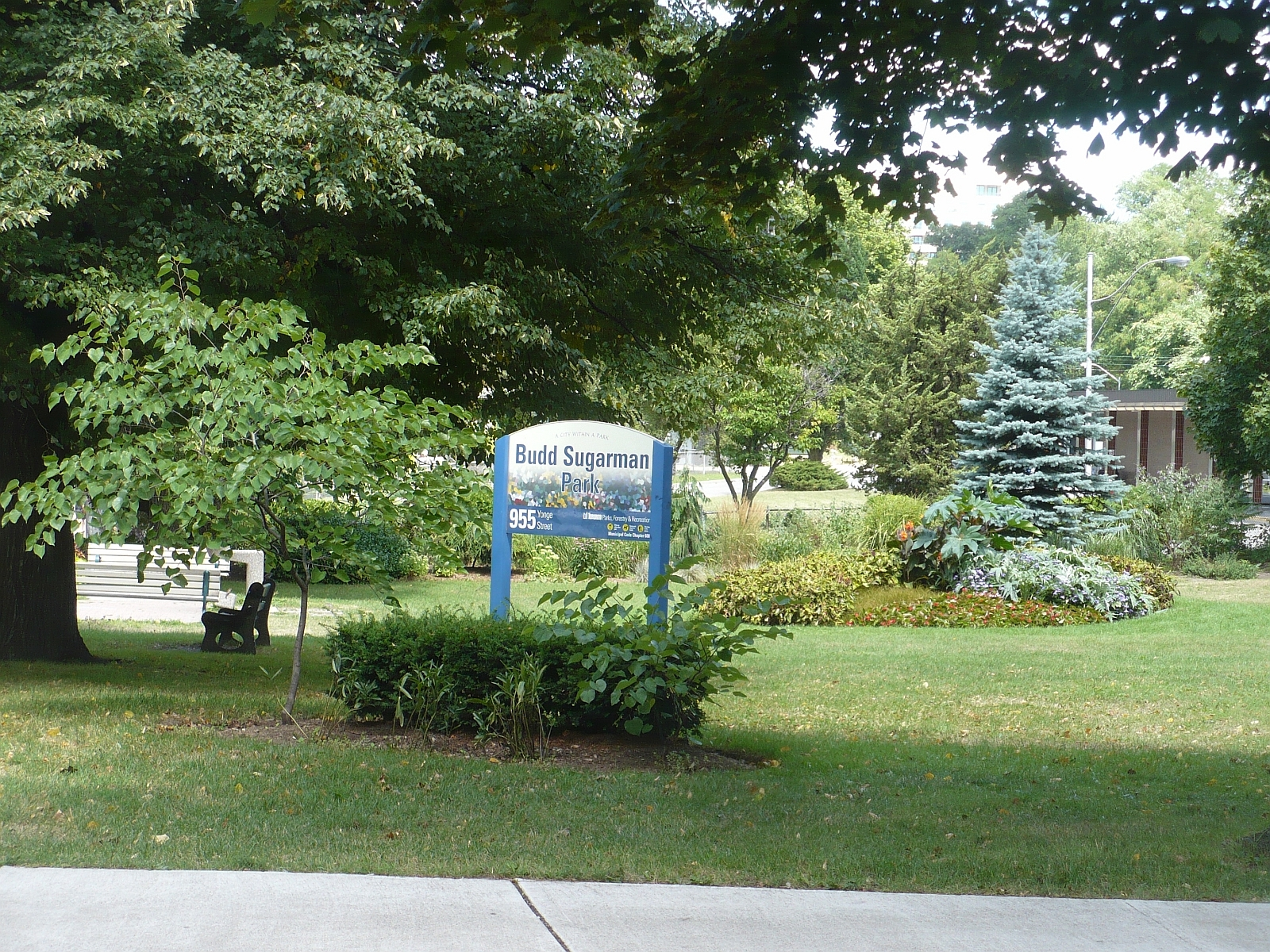 Budd Sugarman Park beside Rosedale subway station in Toronto